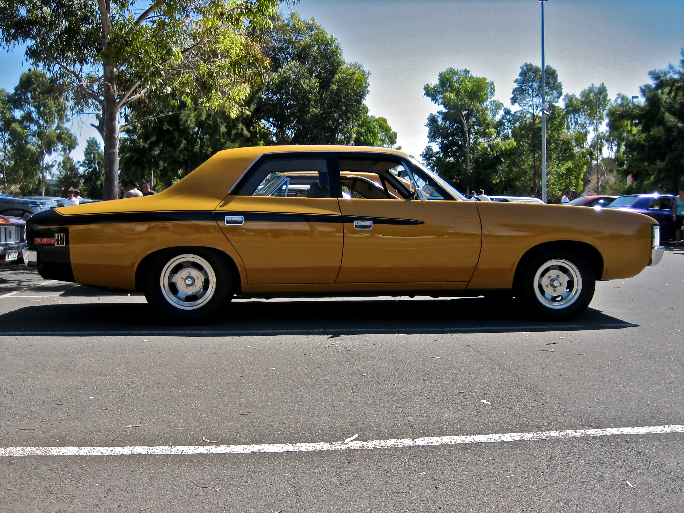 Chrysler Valiant VH Hemi Pacer in yellow ochre.